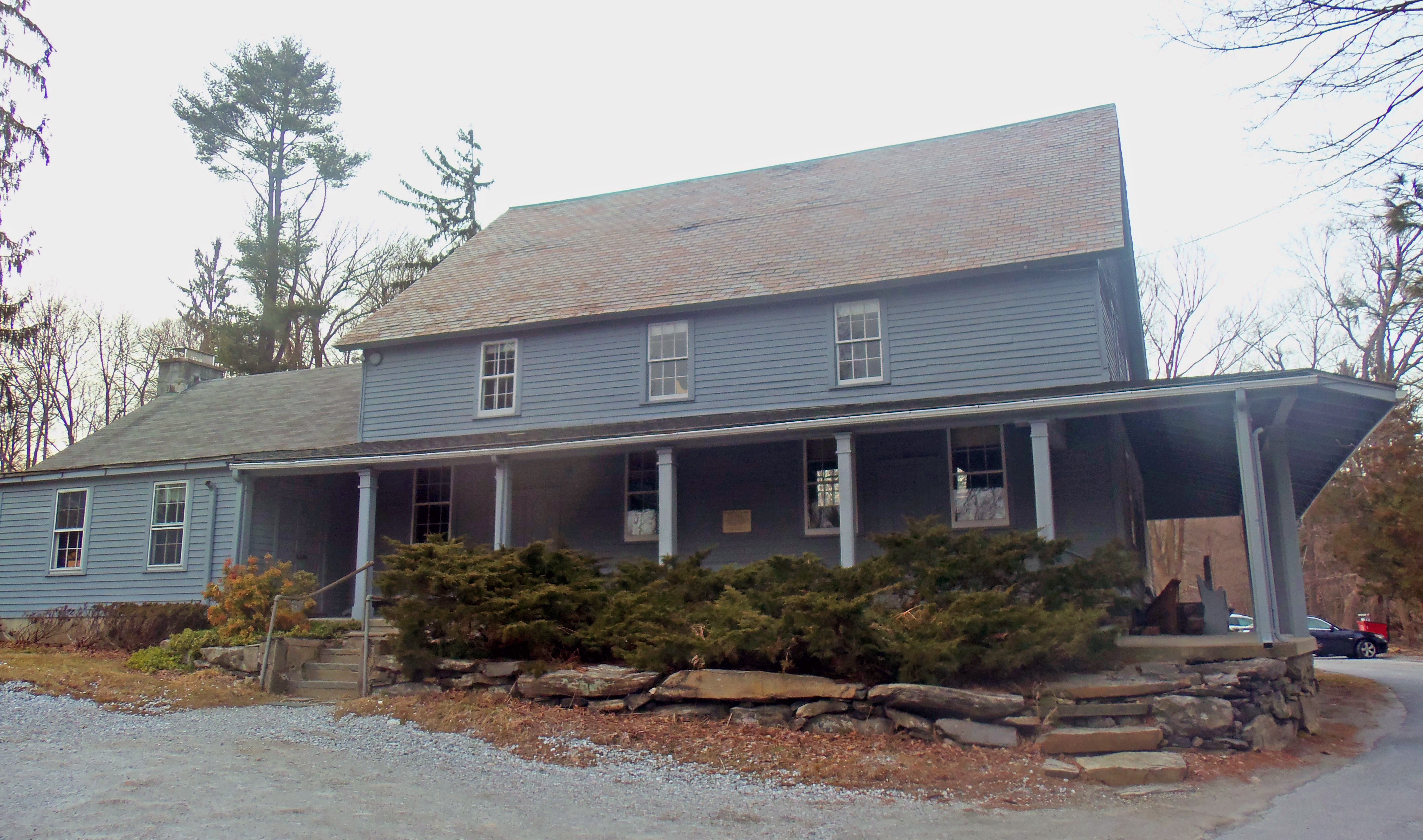 The Chappaqua, NY, USA, Friends Meeting House, a contributing property to the Old Chappaqua Historic District and the oldest known building in the town of New Castle